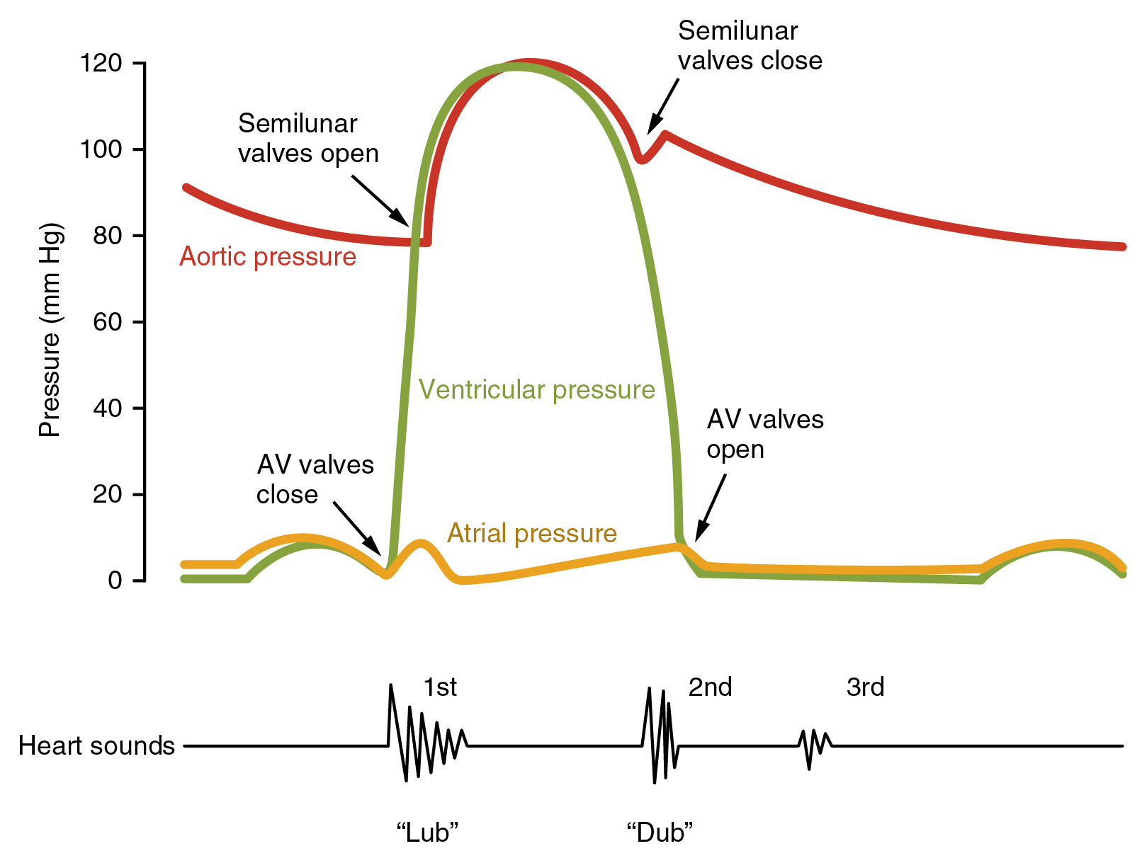 Illustration from Anatomy & Physiology, Connexions Web site. Jun 19, 2013.